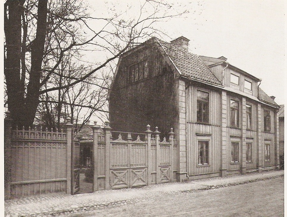 Kalmar 1st nation house Uppsala 1913-57